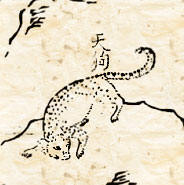 Tiangou. Ink drawing of the "Catalogue of Mountains and Seas" ("Shan Hai Jing") // Тяньгоу. Рисунок тушью из "Каталога гор и морей" ("Шань хай цзин")